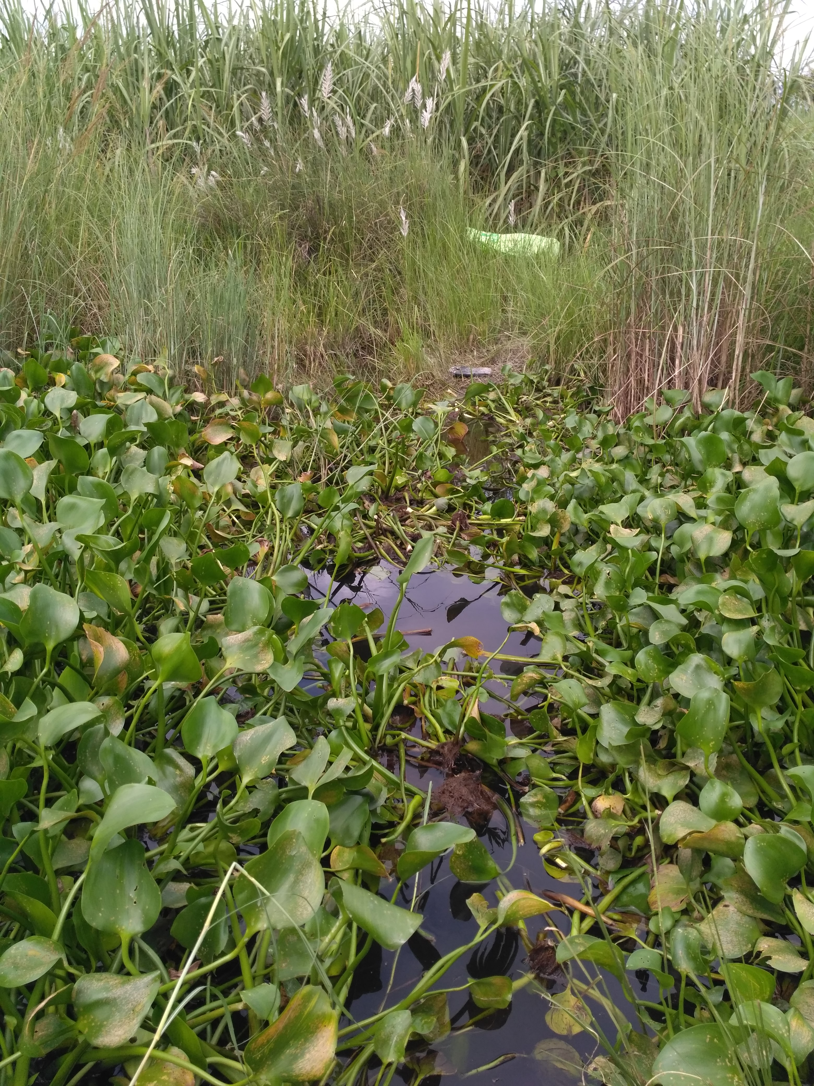 Small view of hyacinth choked Pitai river near Mainhan village of Kheri district India